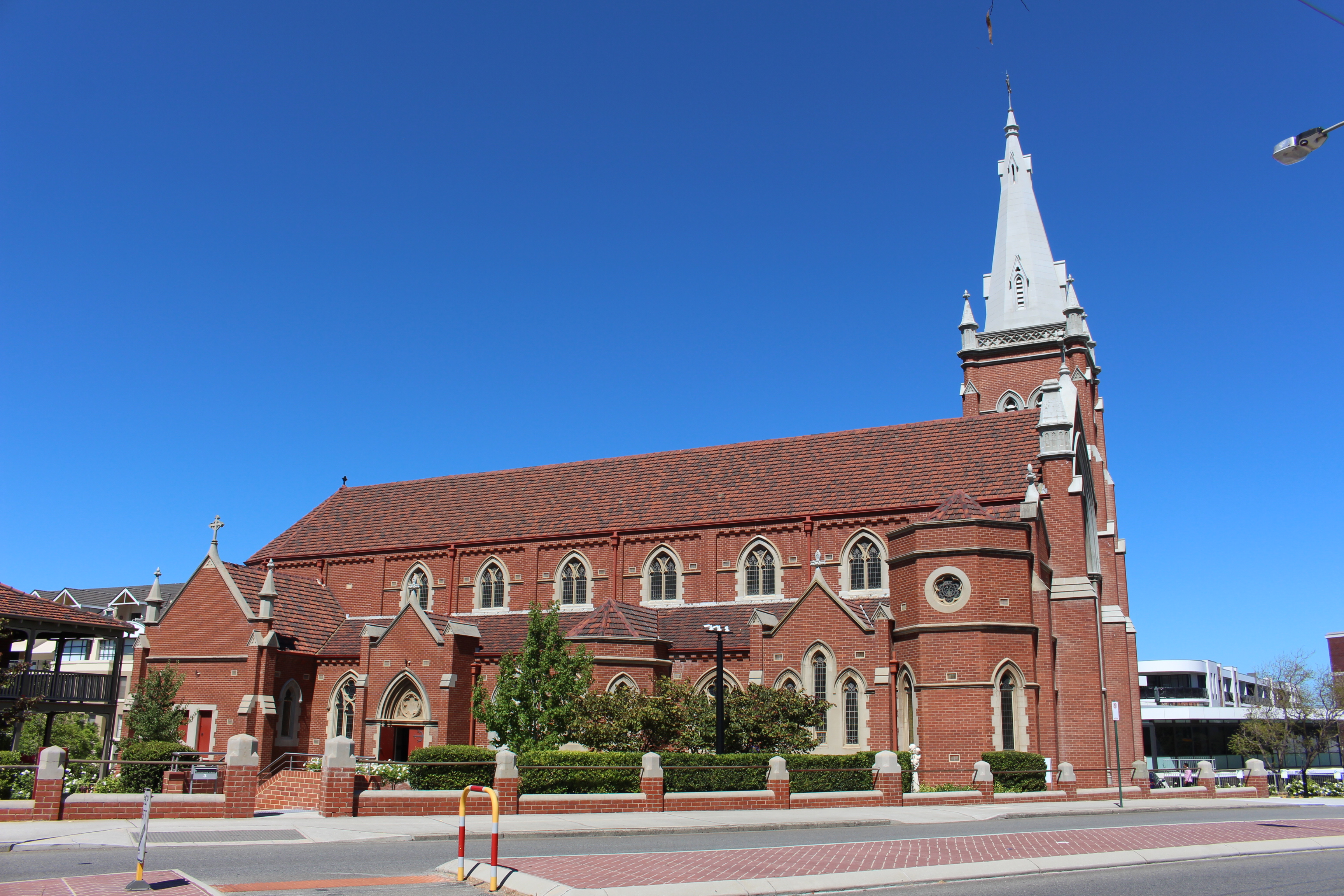 St Joseph's Church in Subiaco, Western Australia